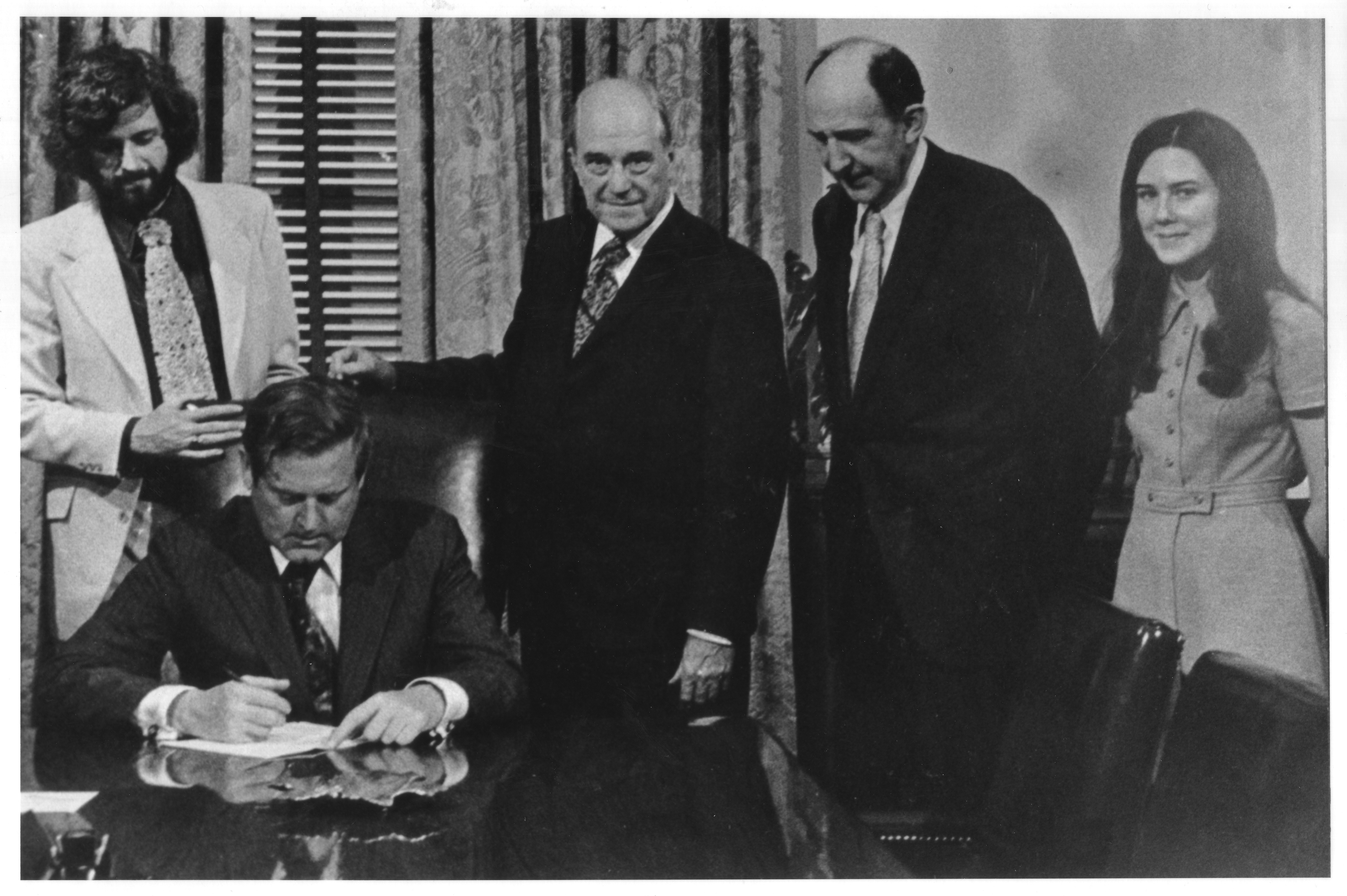 Governor A. Linwood Holton, Jr., signing H-210, the bill which separated George Mason College from its parent institution, University of Virginia on April 7, 1972 at his office in Richmond. Pictured left to right are: Student Government President James Corrigan, Governor Linwood Holton, Jr., George Mason University Chancellor Lorin A. Thompson, George Mason University Advisory Board President John Wood, and Student Senator Anne O' Grady. 8" x 10" photograph print; black and white.